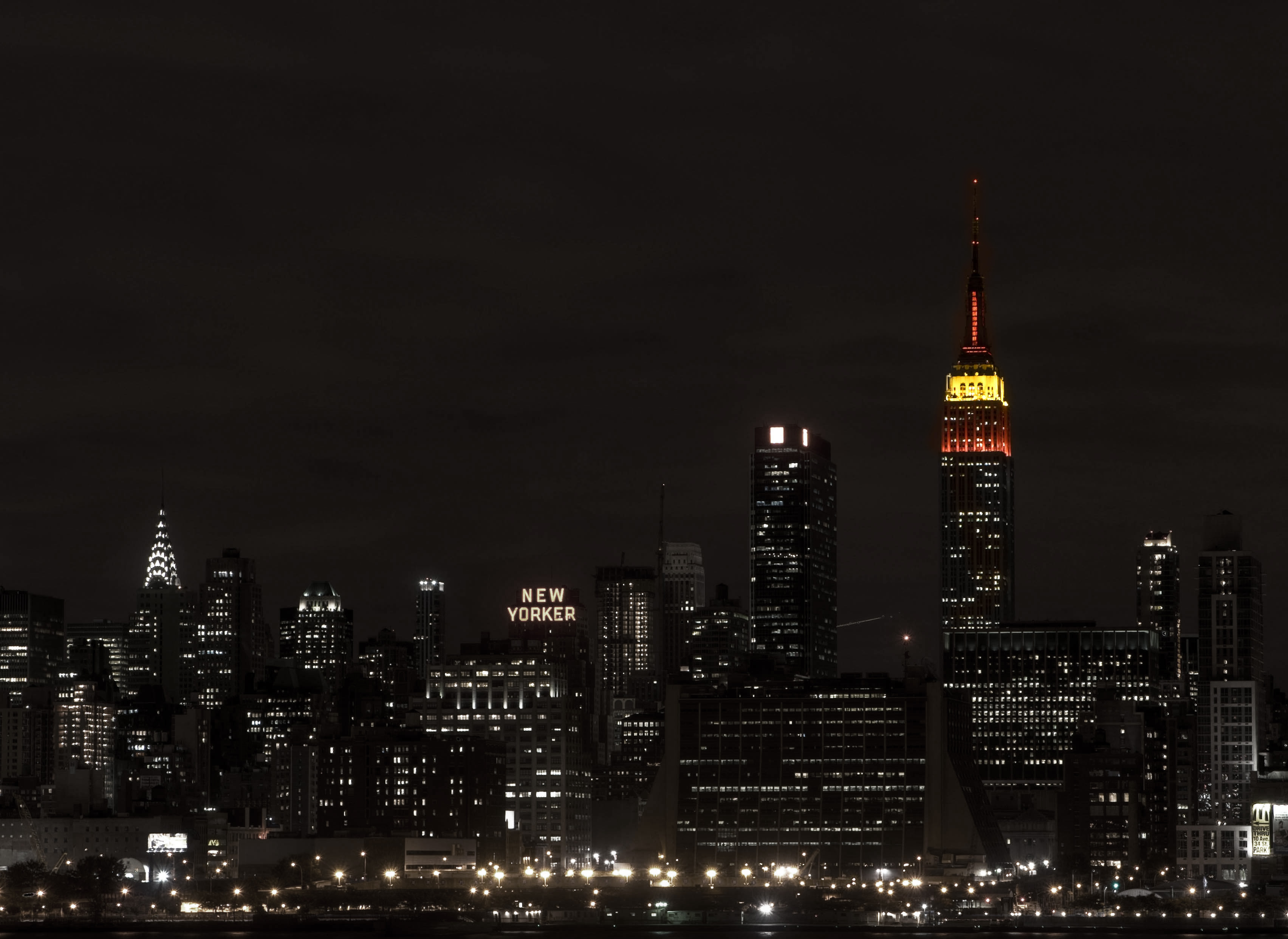 Empire State Building lights up in red and yellow during the 60th anniversary of the People's Republic of China.